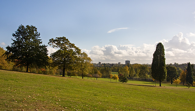 Gladstone Park A view across the park as autumn sets in and the trees begin to change colour. In the distant centre we can see the tower of Cricklewood Methodist Church just below the horizon. On the right of the church, the two tower blocks are at Summit Court and Windmill Court on Shoot-up Hill. The identity of the one on the left escapes me at present.